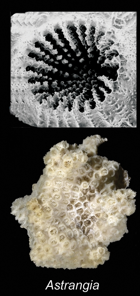 Cut-outs from original files: Recent_azooxanthellate_Scleractinia_(Cnidaria,_Anthozoa)_-_ZooKeys-227-001-g001 - 023